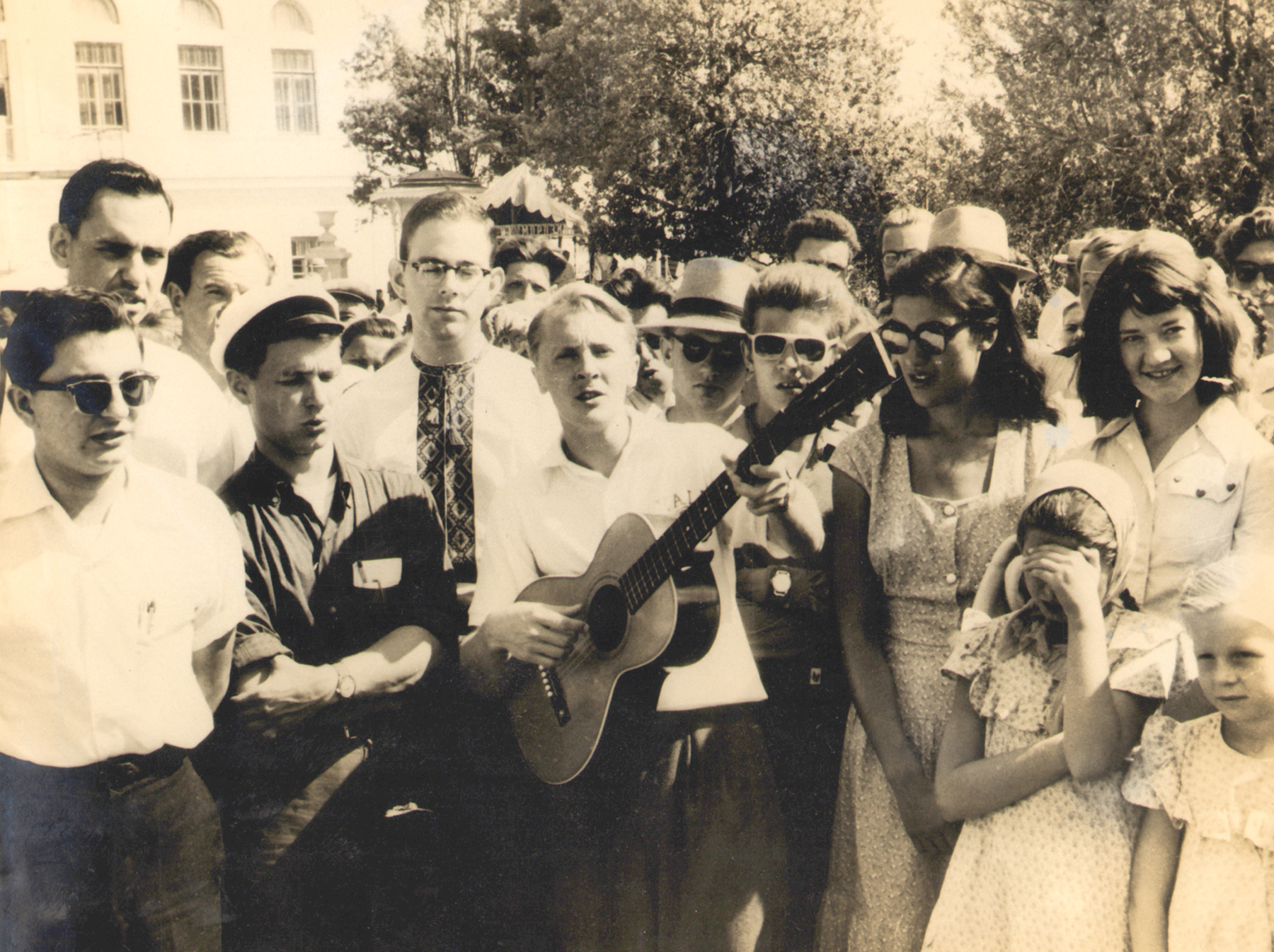 Denis Mickiewicz playing his guitar and leading the Yale Russian Chorus in song at Sochi on the Black Sea in 1958.